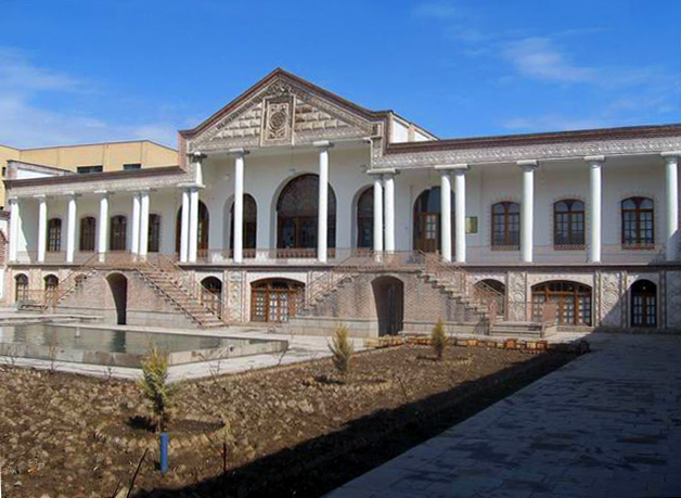 The Amir Nezam House/Qajar Museum in Tabriz